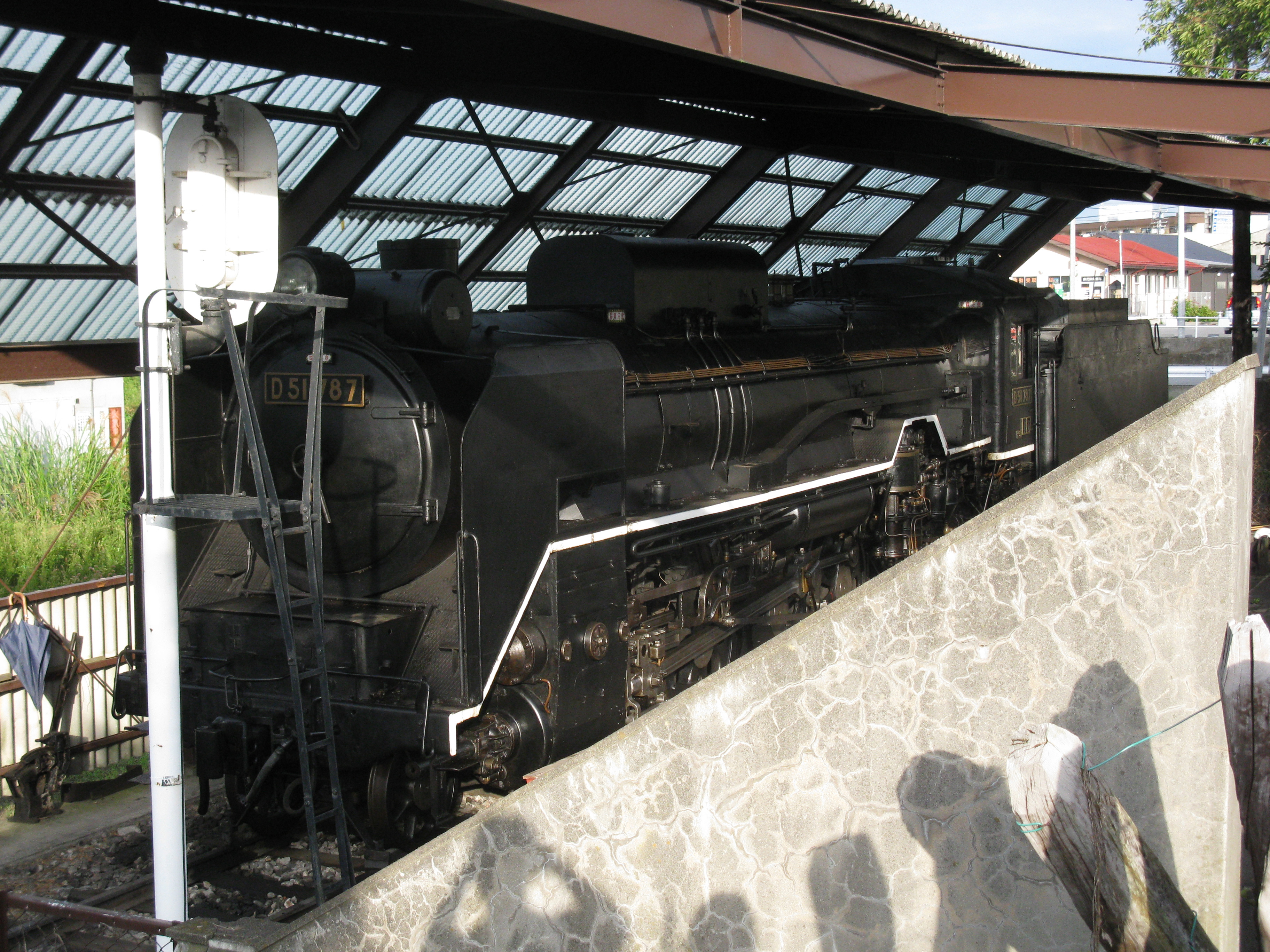 JNR Steam Locomotive Class D51 no.787 (Miyota town, Kitasaku district, Nagano prefecture, Japan)